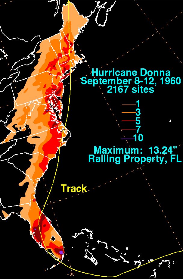 Storm total rainfall map of Hurricane Donna during September 1960.